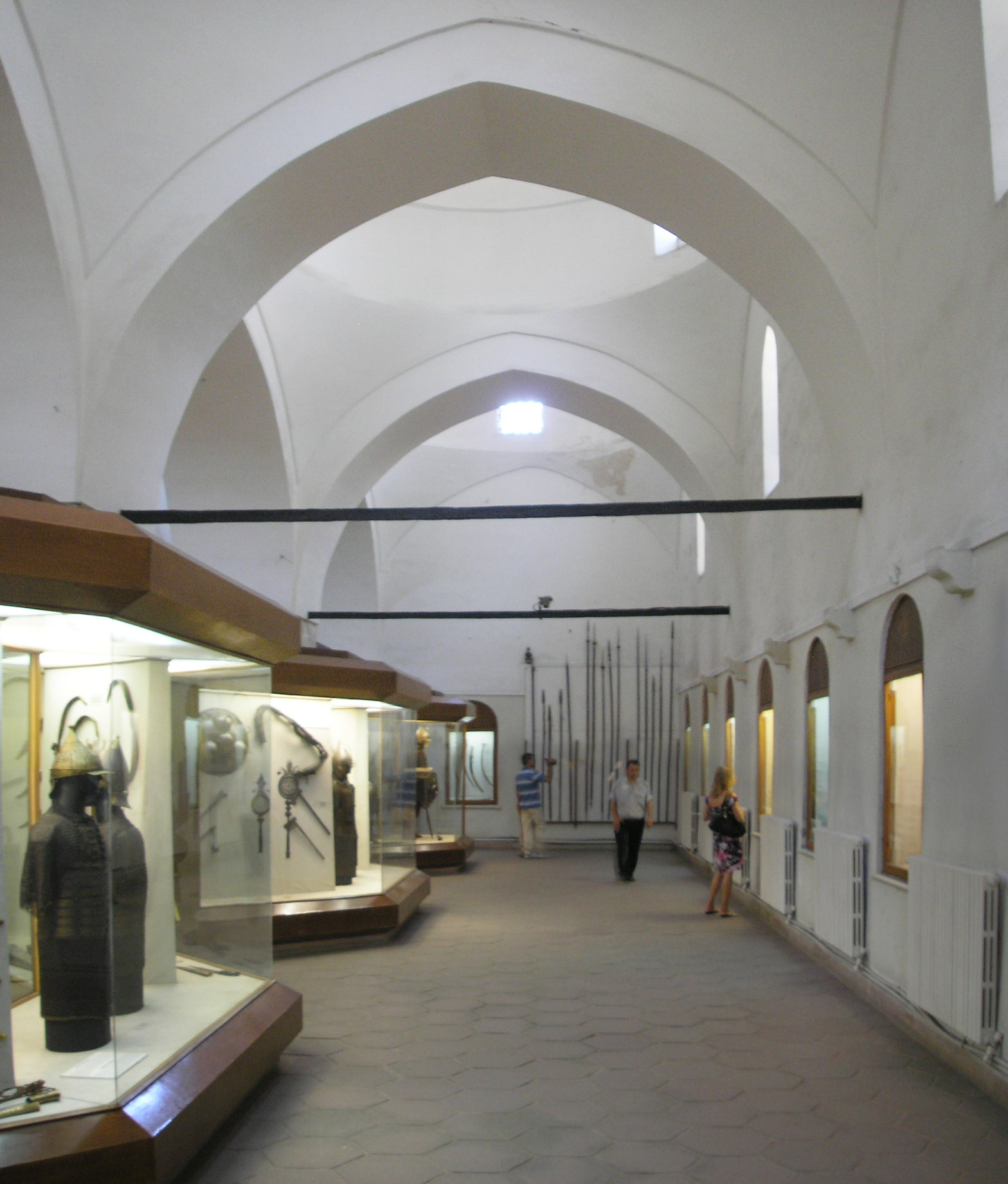 Interior of the armory exhibition hall, Topkapi Palace, Istanbul.